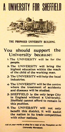 Fundraising poster